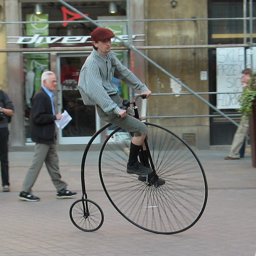 An ordinary bicycle. Man riding the bicycle in the centre of Kraków, Poland.